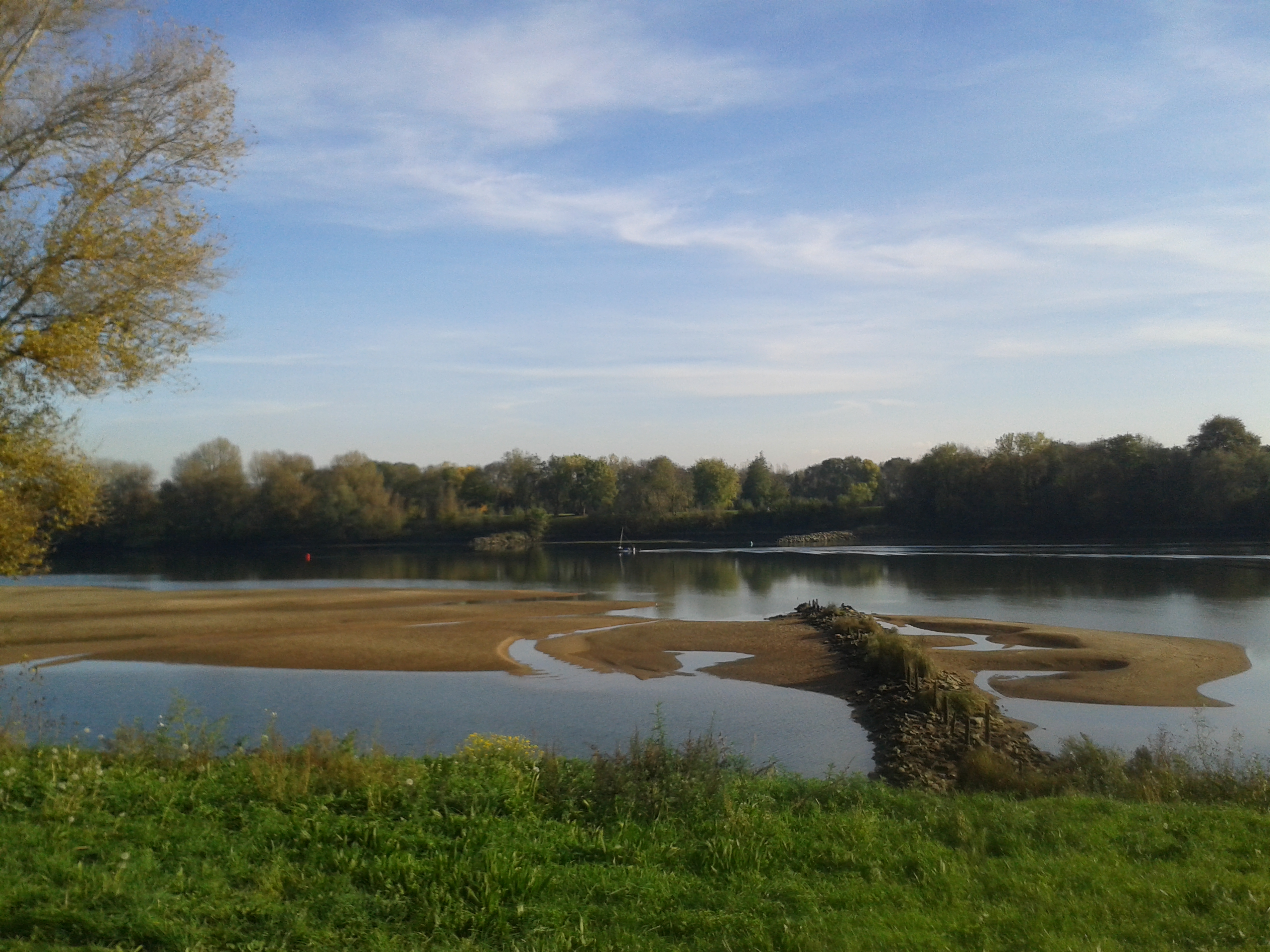 Northern bank of the Loire river, near Mauves-sur-Loire (44, France)